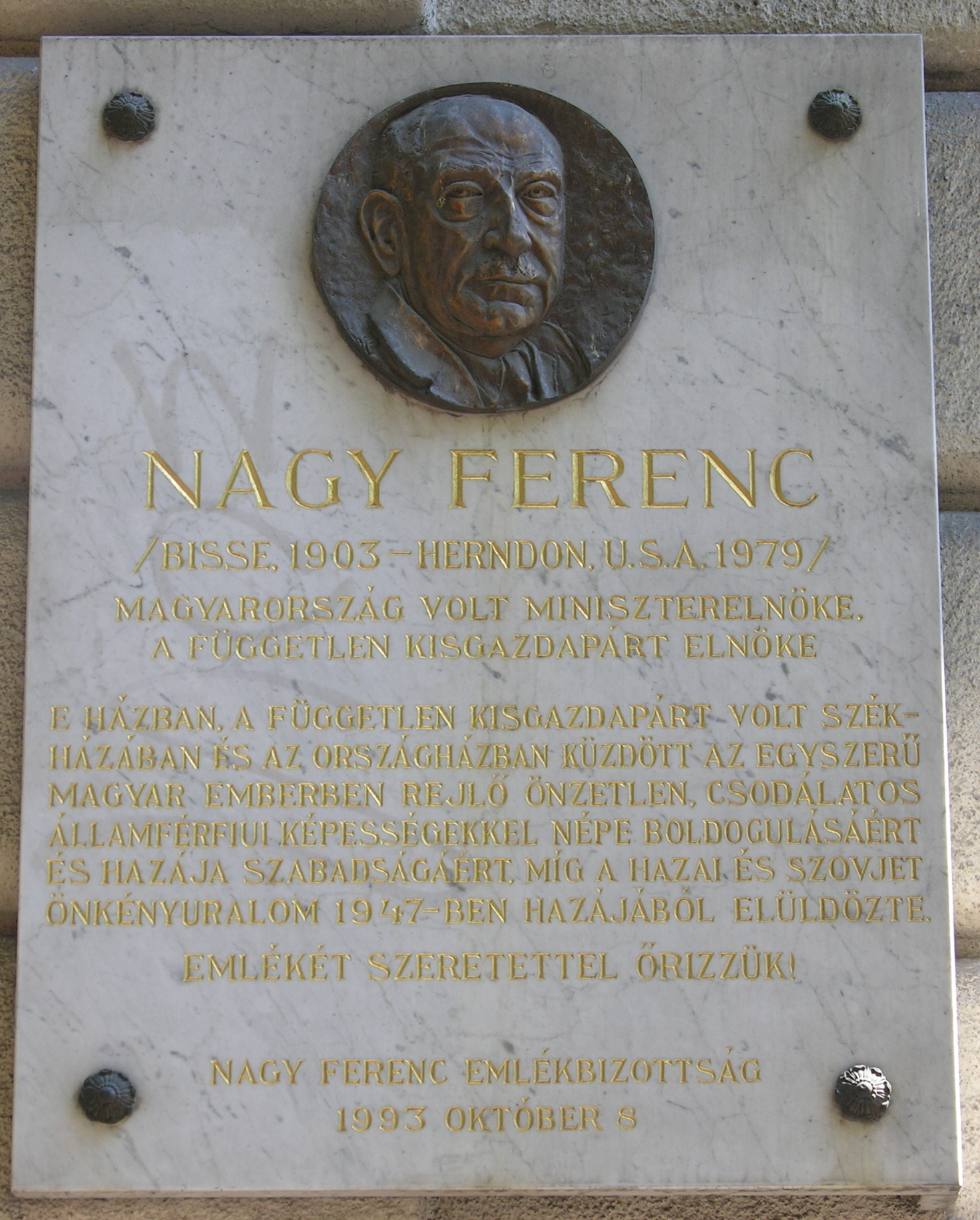 Commemorative plaque of the prime minister Ferenc Nagy in Budapest District V, Semmelweis Street No 1